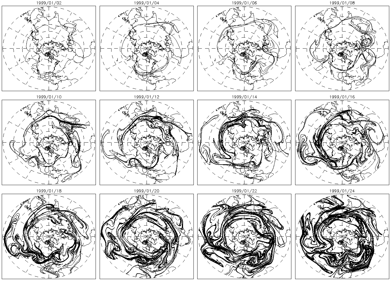 Water vapour contour, 2.4e-2 mmr, advected on a 400 K isentropic surface. Simulation was performed in Interactive Data Language with UK Met Office (UKMO) wind fields.